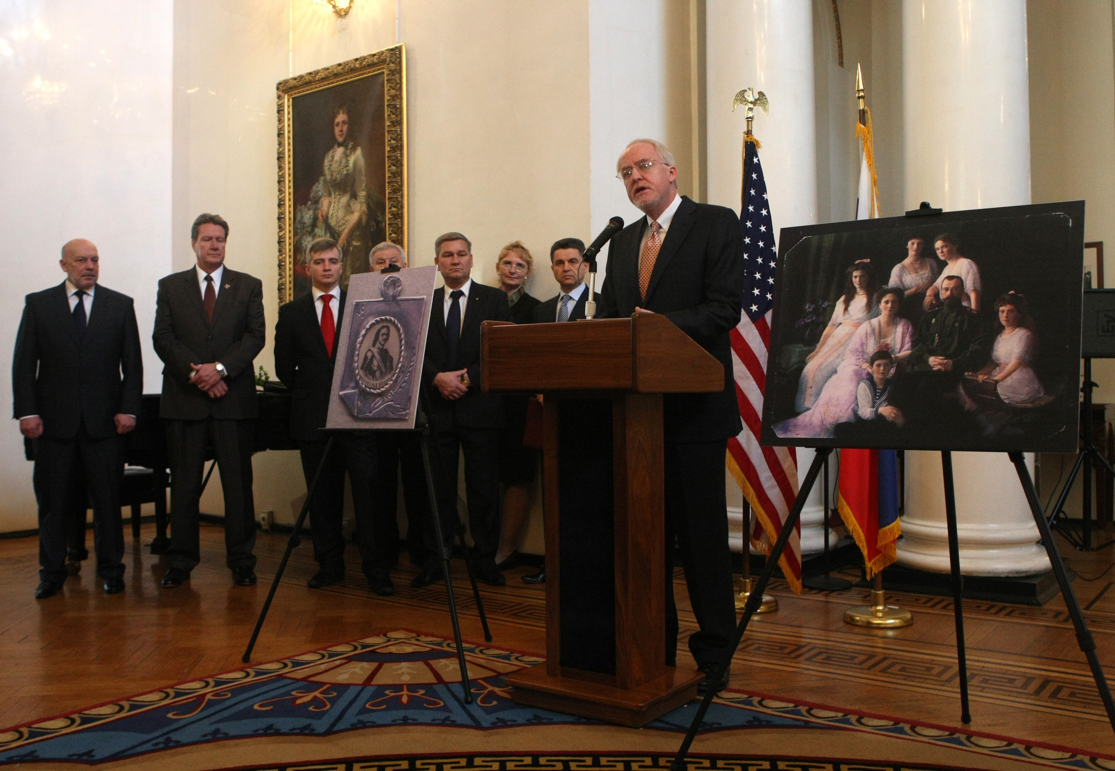 Ambassador John Beyrle returns medallion belonging to family of Czar Nicholas II to officials of the Russian Government. The medallion was stolen from the Hermitage Museum in the 1990s and was recovered in 2010 by a joint operation of the U.S. Immigration and Customs Enforcement (ICE) and the Russian Organization for the Protection of Cultural Property